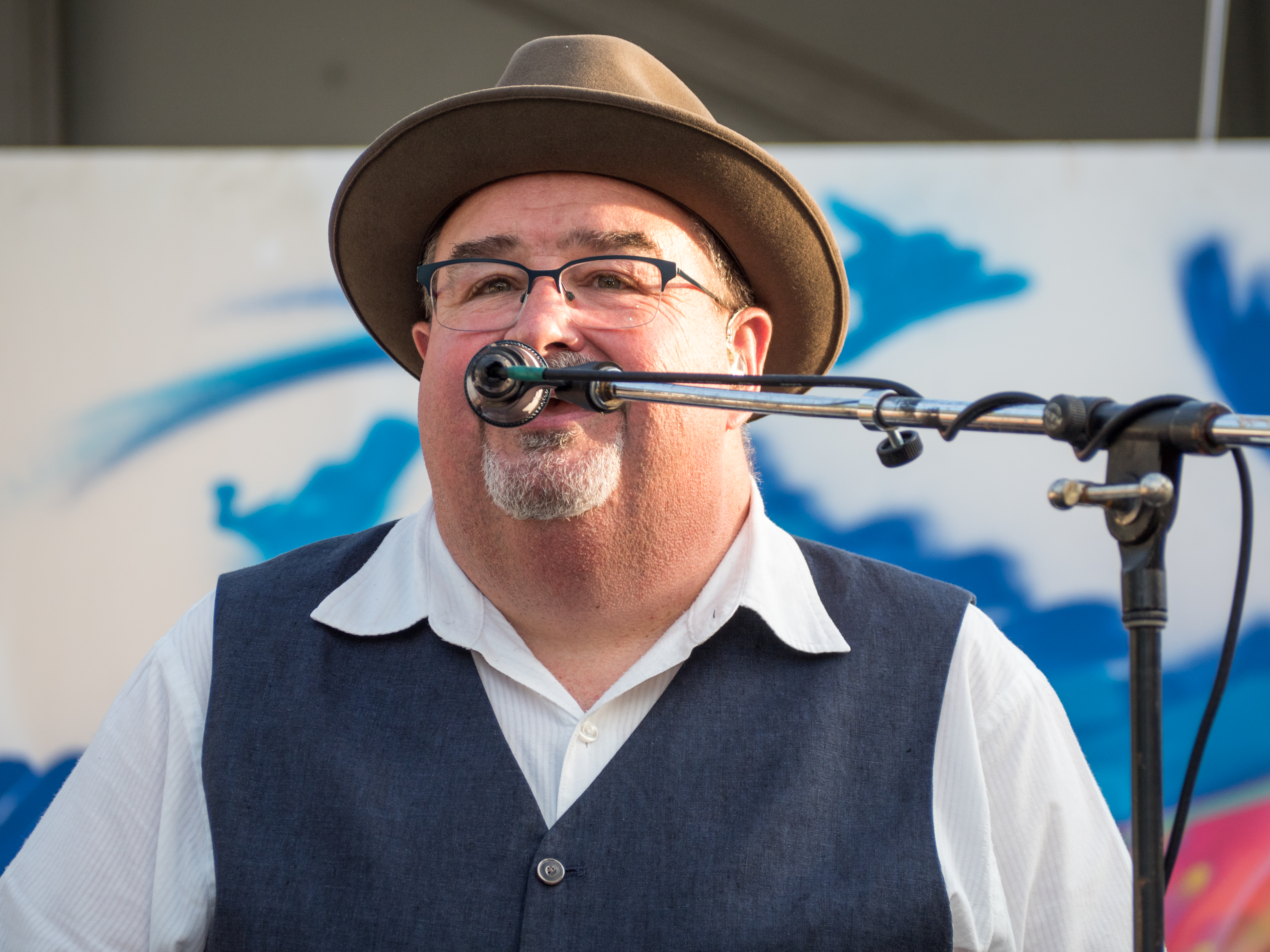 John Papa Gros performing with his band at the Brooklyn Botanic Garden Chile Pepper Festival